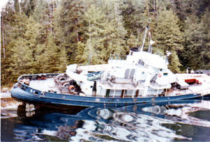 M.V. Samarkanda at Sydney Inlet, Vancouver Island, May 22, 1979. Photo by U.S. Drug Enforcement Administration